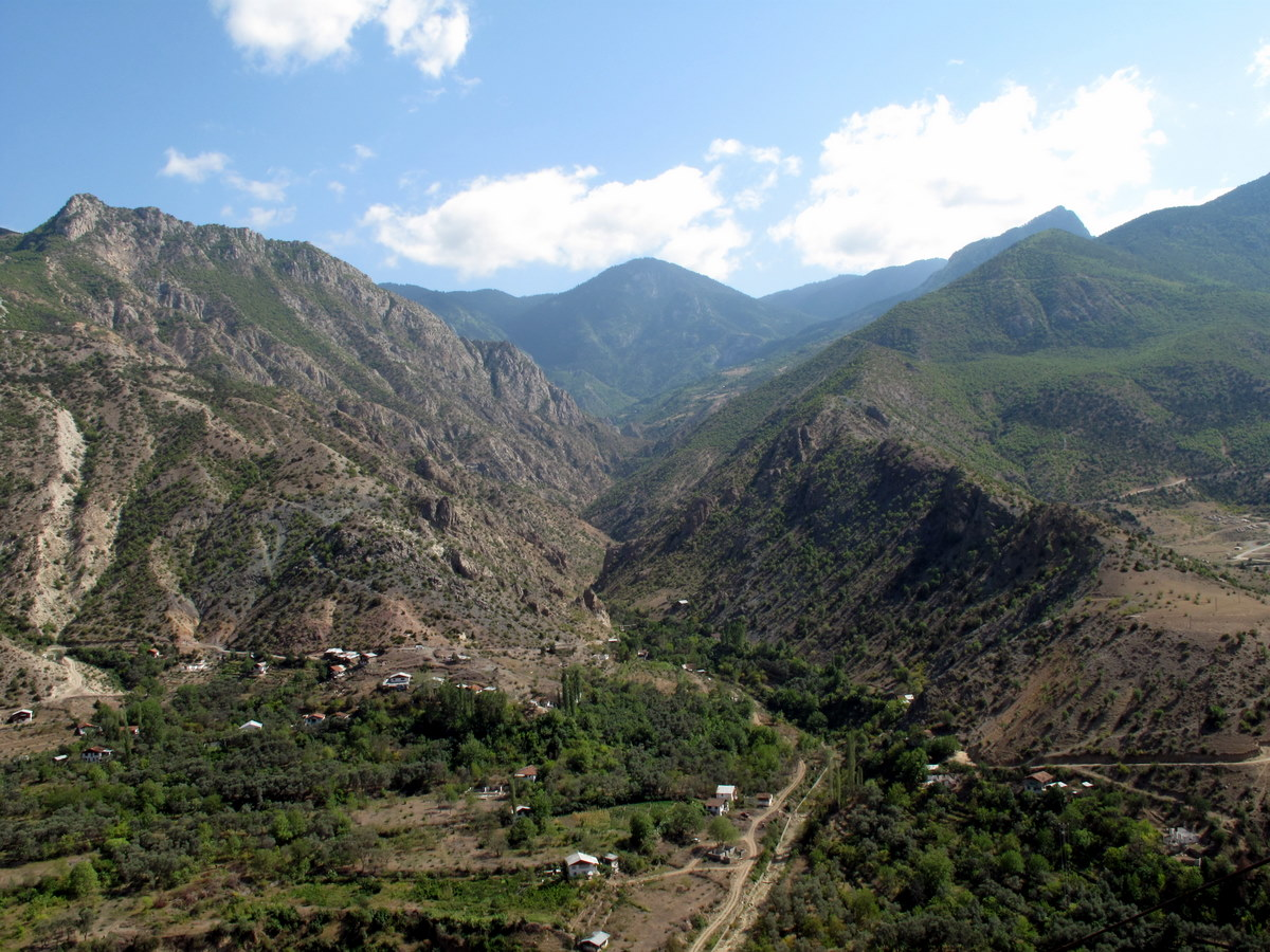 photos from northeast turkey, as part of trip documented on